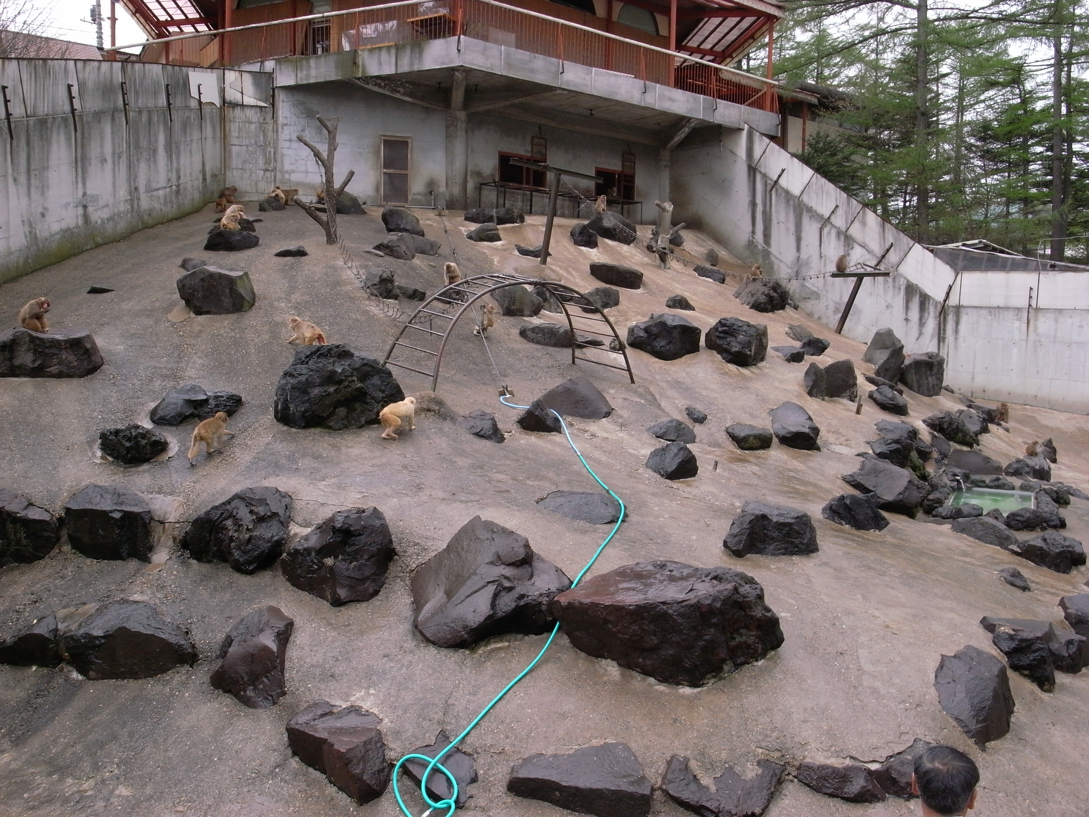 Kusatsu nettaiken. Kusatsu-town, Gunma-pref, Japan.